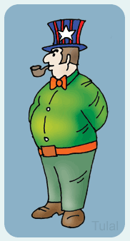 A cartoon drawn by Tulal, colored digitally